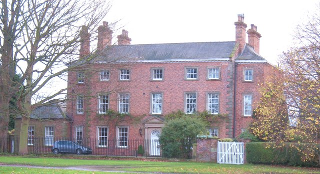 Hurworth Old Hall Hurworth developed as a wealthy outpost of Darlington and has several houses of note, the Old Hall being the grandest. The house is early 18th century, of brick with stone detailing. The house looks out on to the spacious green at the front and down to the Tees at the back.